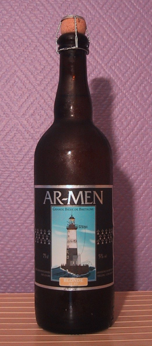 Beer AR-MEN (Brittany, France)